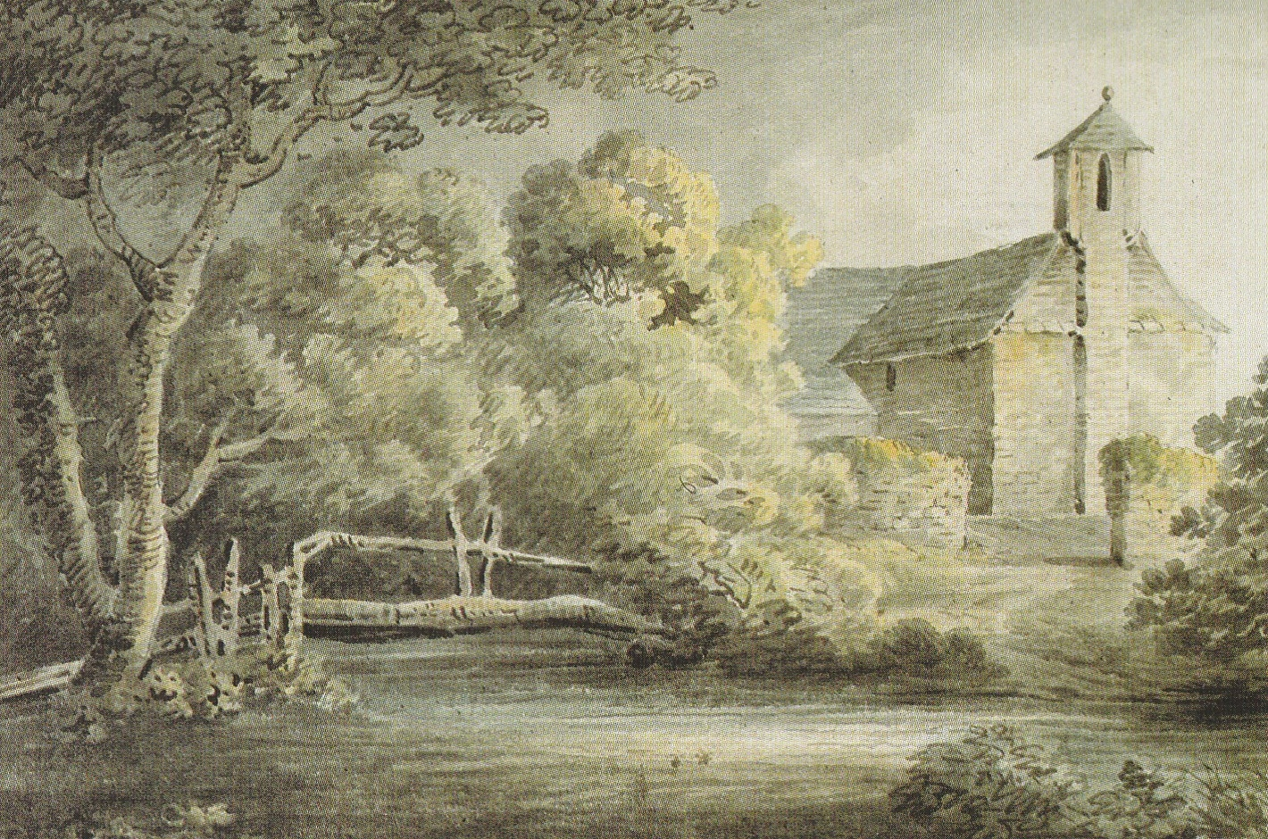 "Chapel to Cullomb John", 1800 watercolour by Rev. John Swete (d.1821) of the private chapel of the former Columb John mansion house (built c.1590, demolished c.1700) in the parish of Broadclyst, Devon. The chapel survives today having been restored or rebuilt in 1851, called "St John's Chapel". Devon Record Office: DRO,564M/F17/175